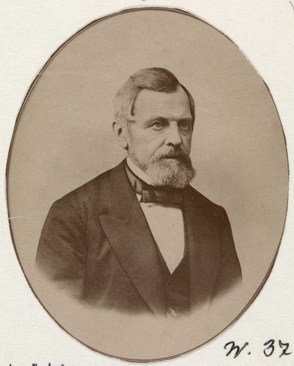 Cropped photo of Carl Thorvald Schiøtt, from the homepage of Oslo Museum. The photo is more than 100 years old and is public domain